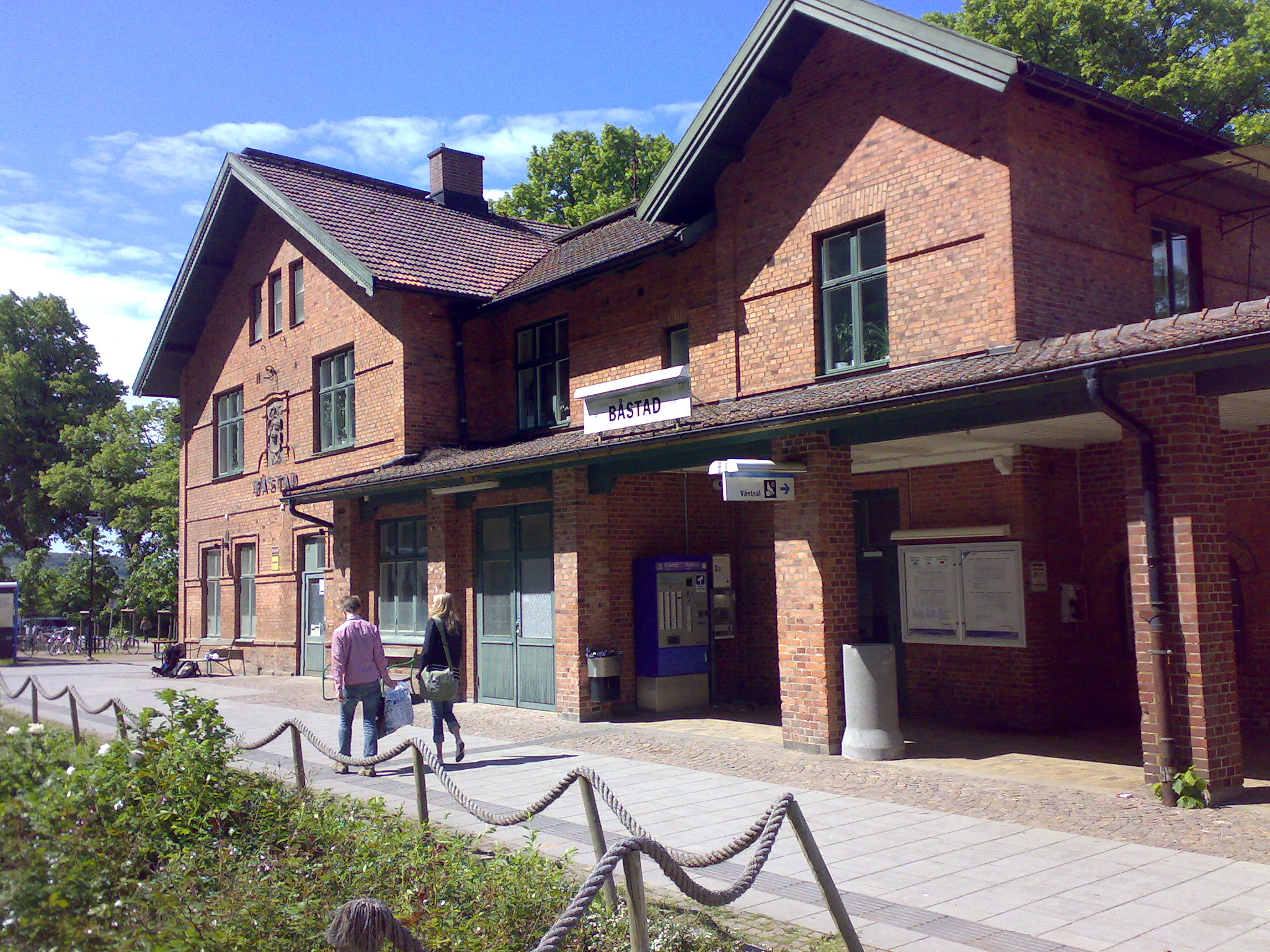 Båstad railway station